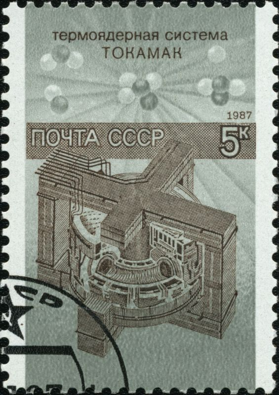 A USSR stamp, Science in USSR. The stamp displays the Tokamak T-15[1], built 1983-1988 and operated 1988-1995 in Moscow. It was the first installation to use superconducting niobium-tin conductors. Later in 2010 it was refurbished as T-15MD and may come back to life in 2019. Date of issue: 25th November 1987. Designer: A. Kernosov Michel catalogue numbers: 5774-5776. 5 K. sepia and olive-grey. Tokamak thermonuclear system